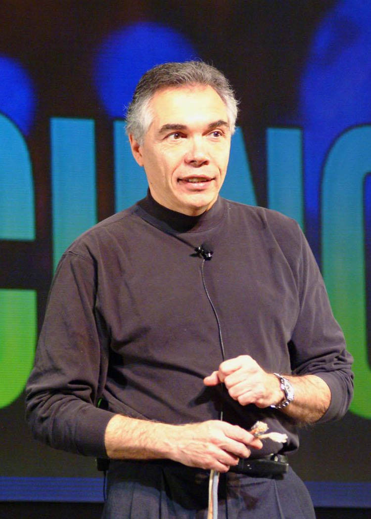 Depicted person: Joseph A. Schwarcz – Canadian scientist